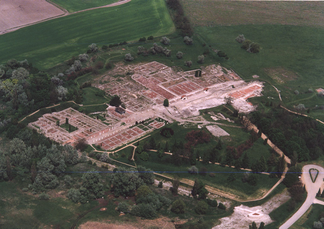 Gorsium - Tác - Hungary - Europe